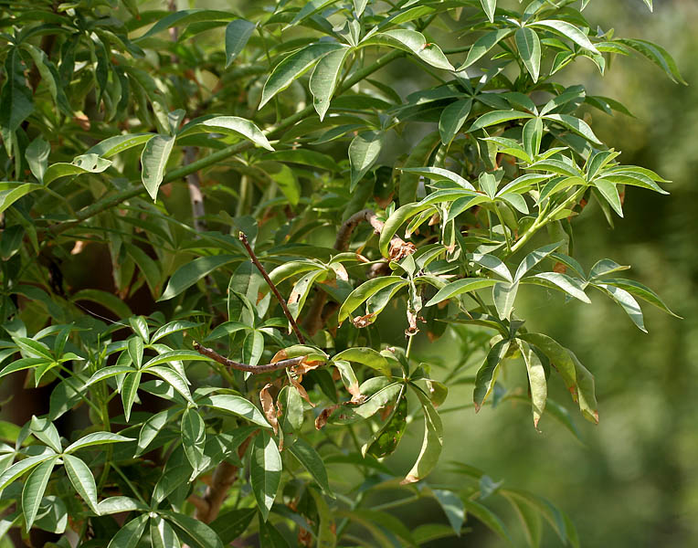 Adansonia digitata - Baobab Tree, Dead-rat tree, Monkey-bread tree, Upside-down tree or Gorakha Chinch in Sanjeevaiah Park, Hyderabad, India.